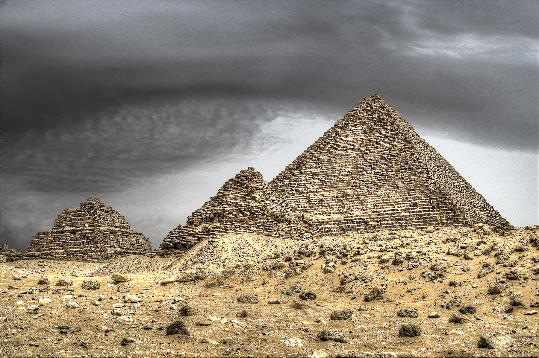 Pyramid of Menkaure